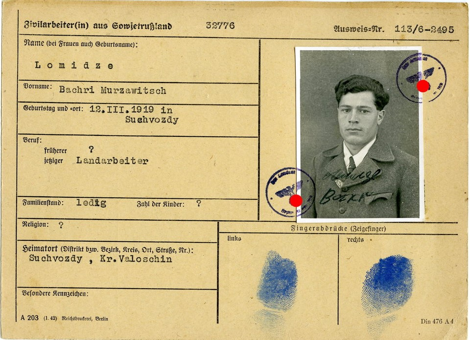 ID card of a Zivilarbeiter from Nazi-occupied Soviet Union. Bachri Murzavich Lomidze born in village of Suchvodzy, Valozhyn Disrtict, now Belarus (The surname is Georgian, village name is not recognized, probably due to inexact transcription)